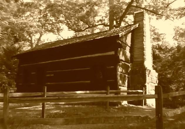 Lieber Cabin, Turkey Run State Park